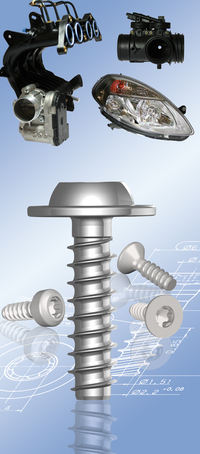 EJOT Delta PT screw